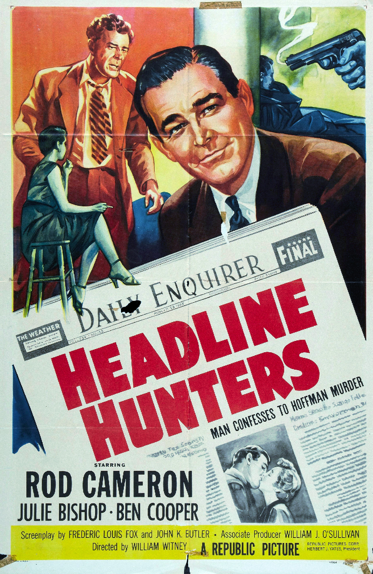 Poster for the 1955 film Headline Hunters. There are no copyright marks. At bottom is Litho in USA and 47926 55/335.